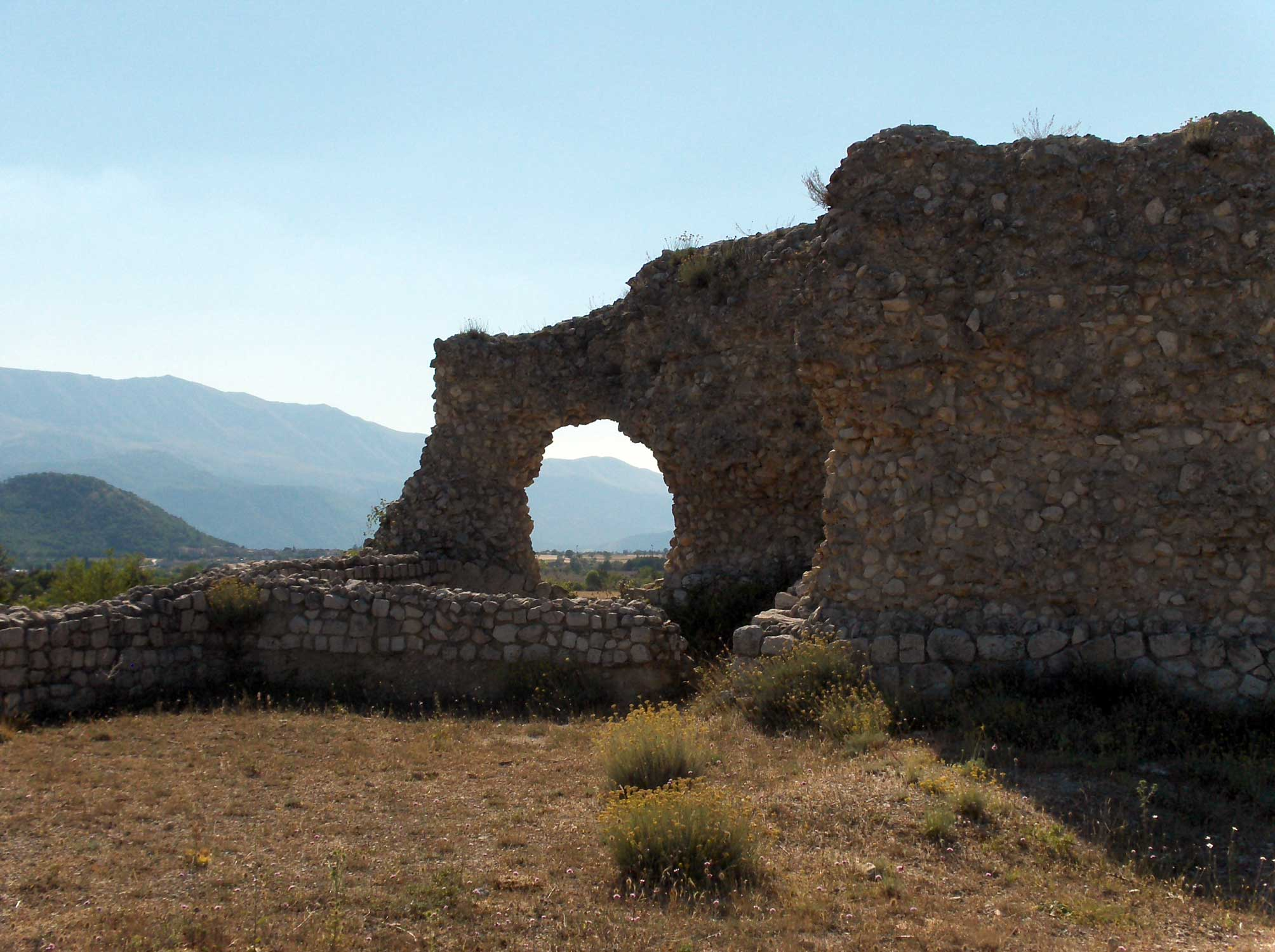 The remains of the Roman town walls at Peltuinum